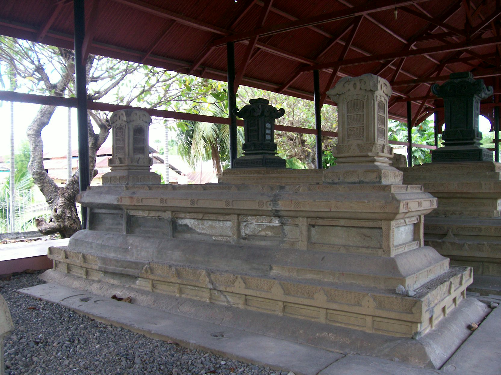 Sultan Ali Mughayat Syah's grave